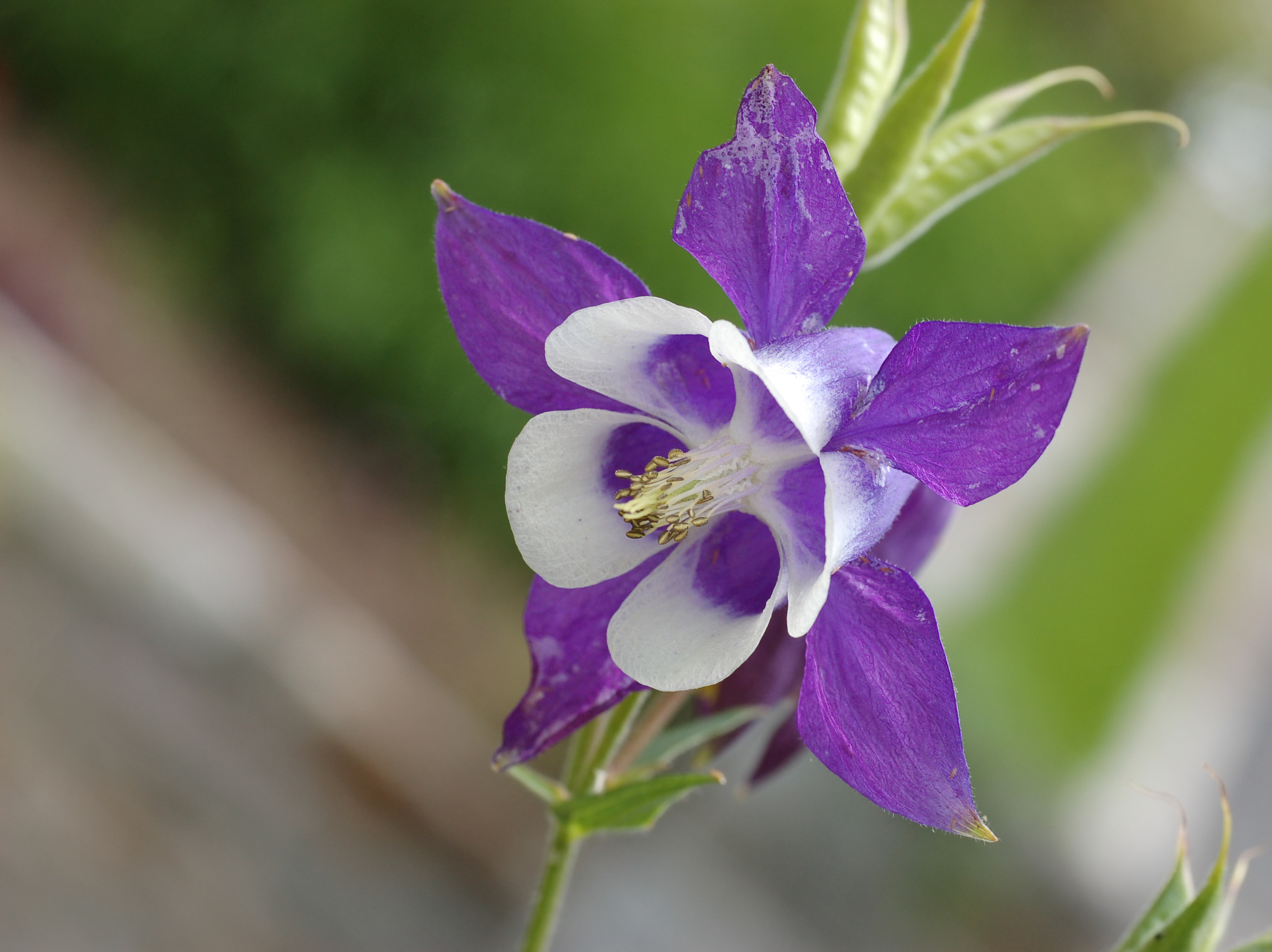 Picture of a Columbineen (Aquilegia en 'Blue Butterflies') flower. Photo taken in the Tennis Court garden at the Chanticleer Garden where it was species identified.